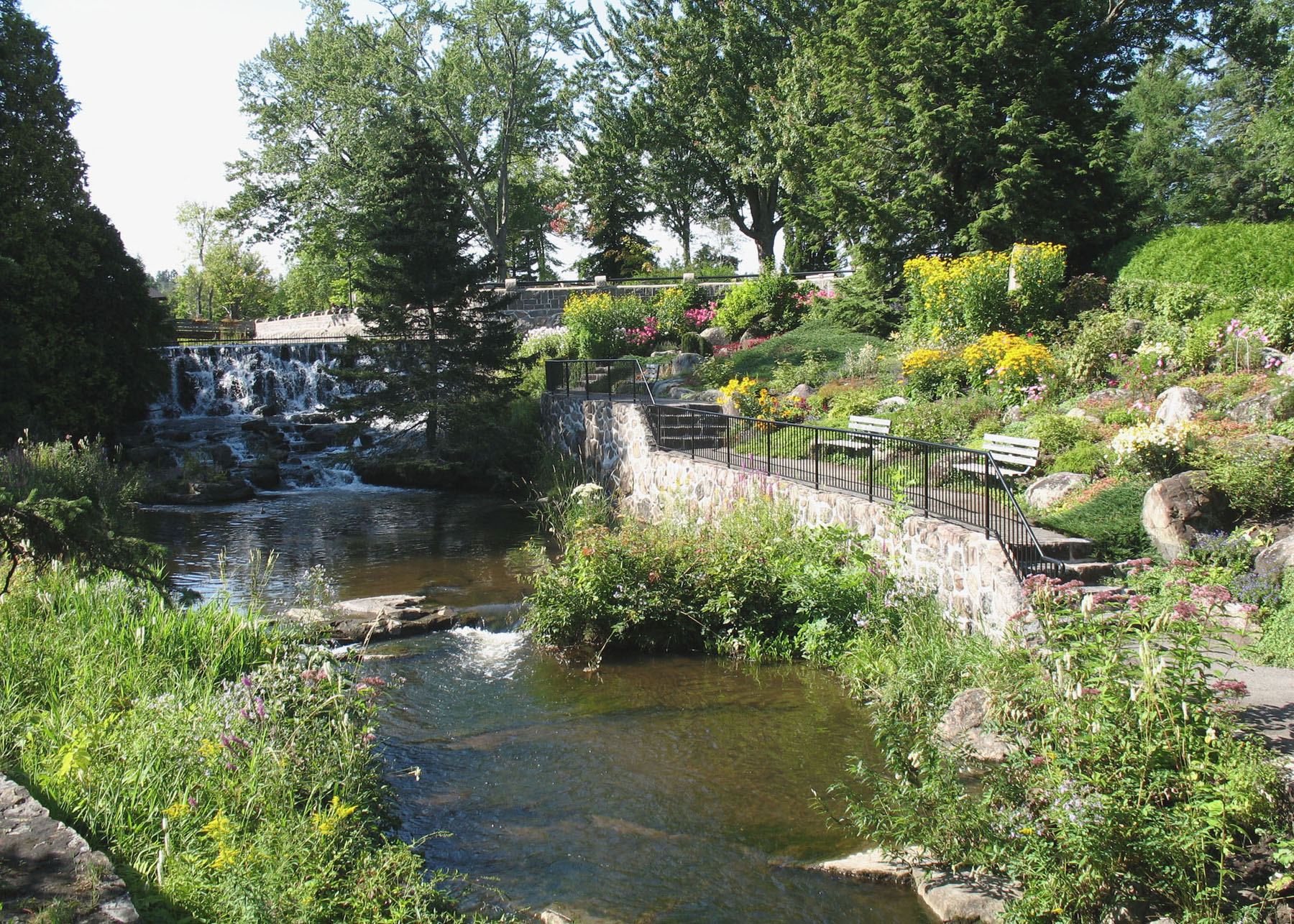 Parc des Moulins, Québec, Canada